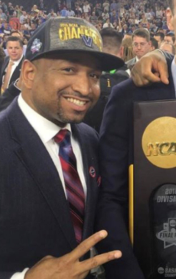 Ashley Howard with 2016 NCAA men's basketball division 1 trophy